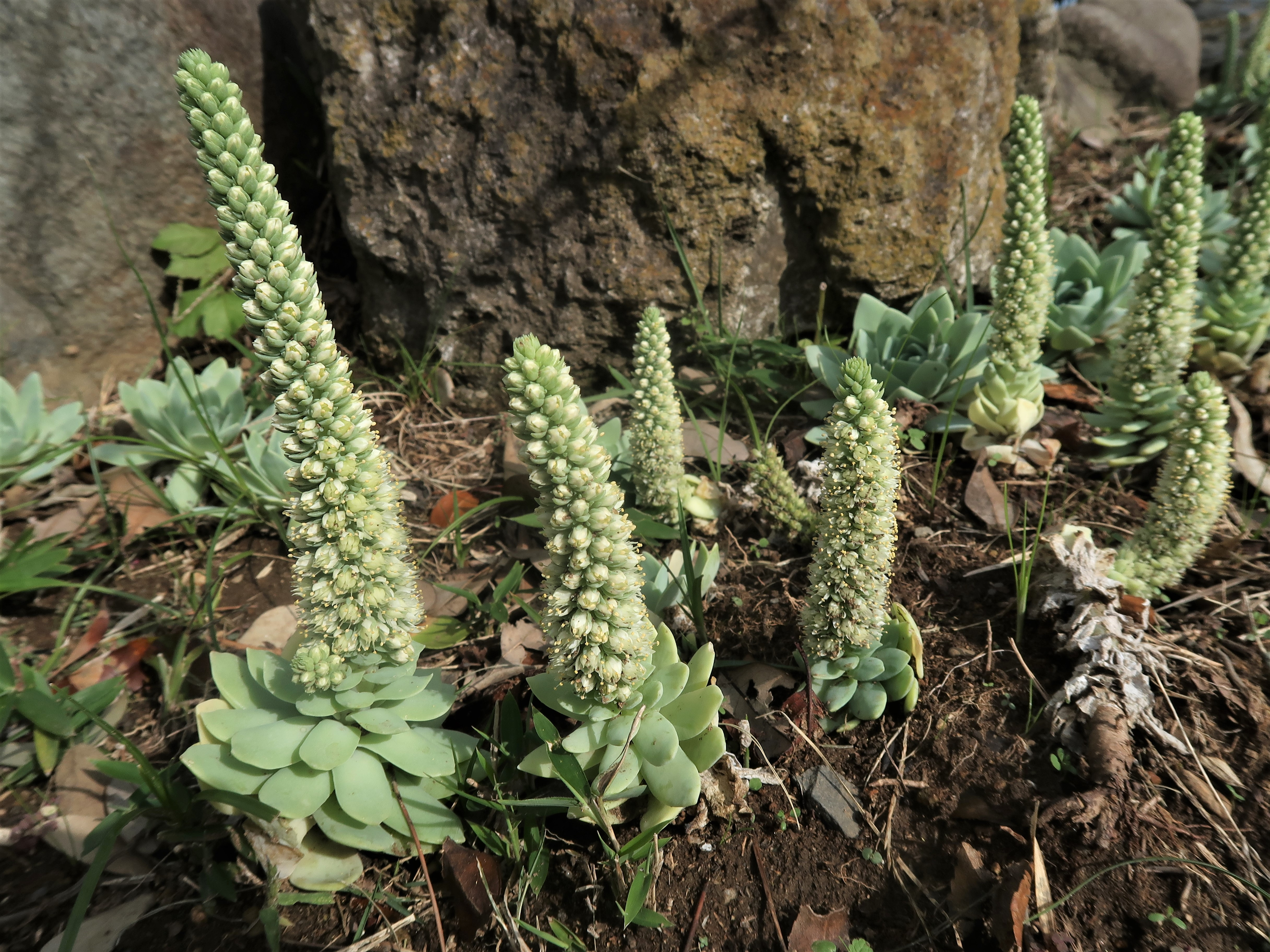 Orostachys malacophylla var. iwarenge, Hitachi-Naka city, Ibaraki pref., Japan